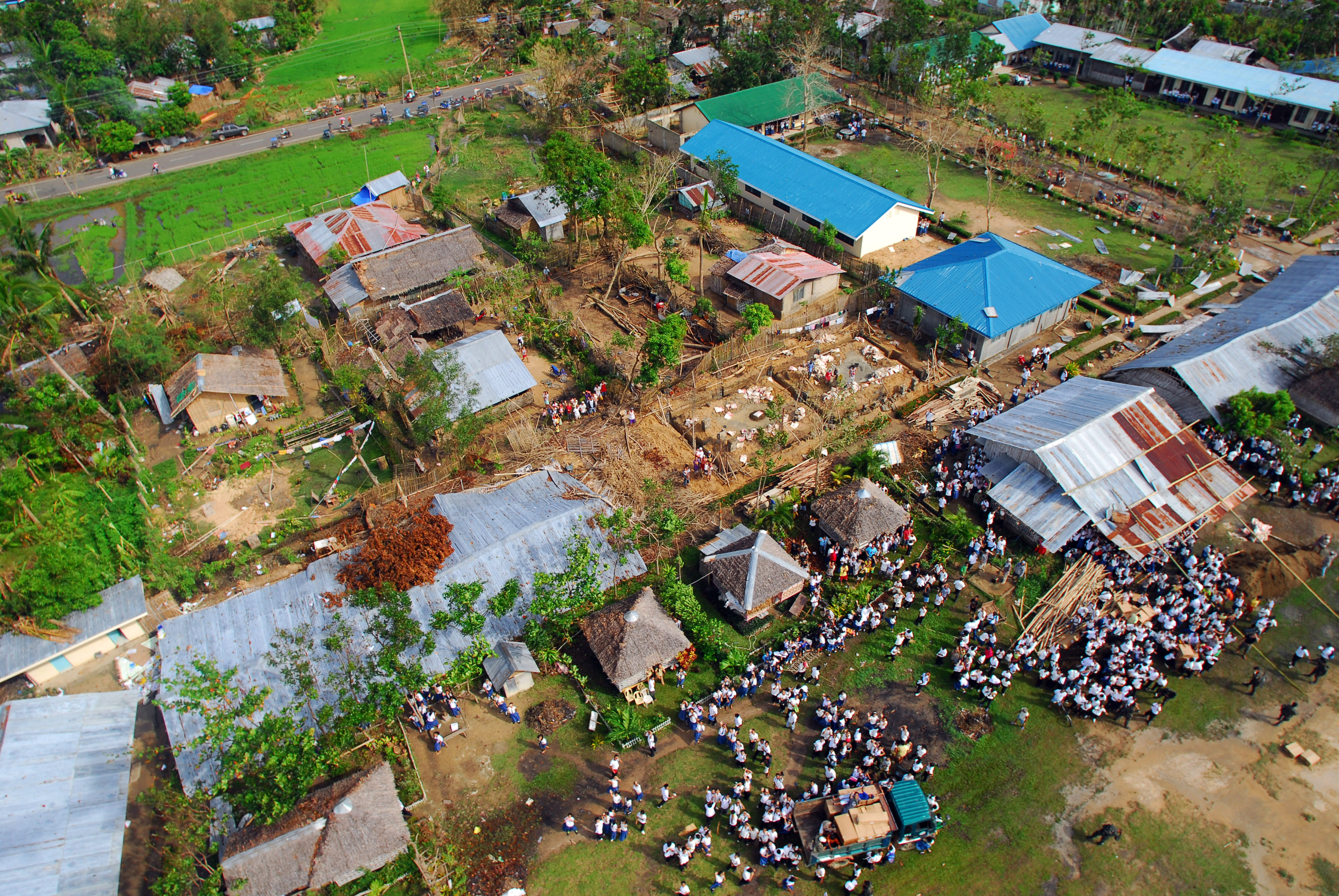 BALASAN, Philippines (July 1, 2008) Residents from the Municipality of Balasan, Philippines wave and cheer after Sailors assigned to the "Black Knights" of Helicopter Anti-Submarine Squadron (HS) 4 deliver supplies. The crew has been flying missions to the island delivering food and water to remote cities like Balasan. The Ronald Reagan Carrier Strike Group is off the coast of Panay Island providing humanitarian assistance and disaster response in the wake of Typhoon Fengshen. The region was hard-hit by Typhoon Fengshen and the "Black Knights" have been flying seven straight days delivering supplies to remote locations on the island. U.S. Navy photo by Mass Communication Specialist 2nd Class Jennifer S. Kimball (Released)